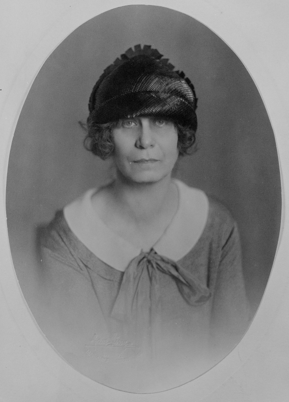 Berta Zuckerkandl (1864–1945), Austrian writer, journalist, and art critic.